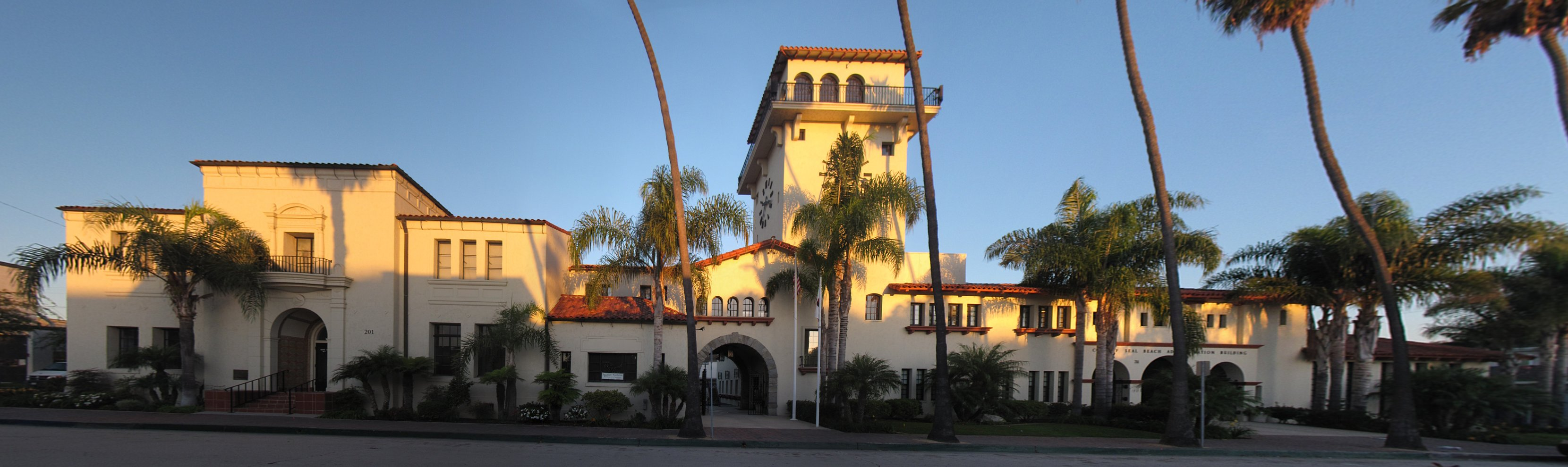 Seal Beach City Hall